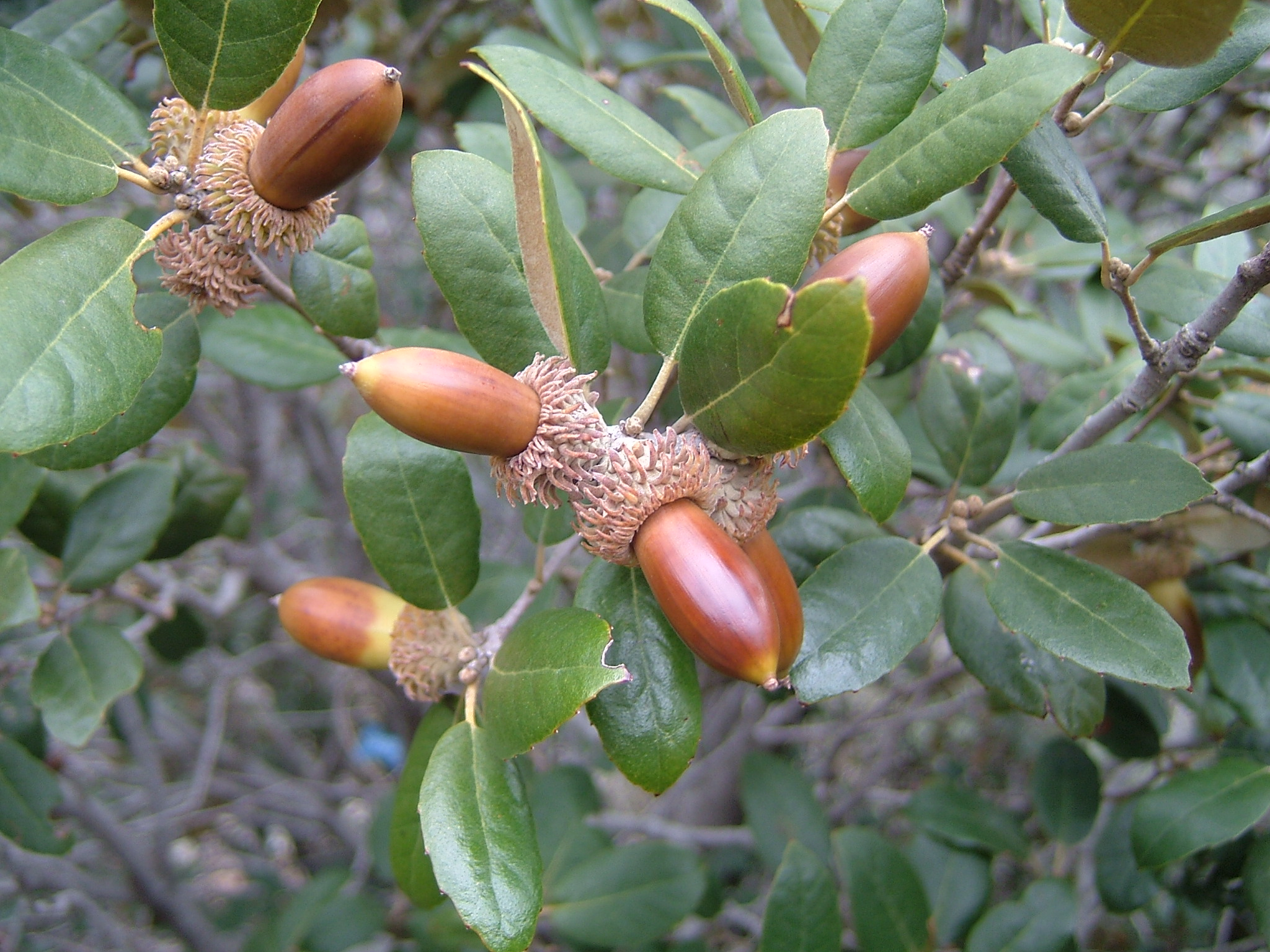 Leaves and acorns of the golden oak (Quercus alnifolia)